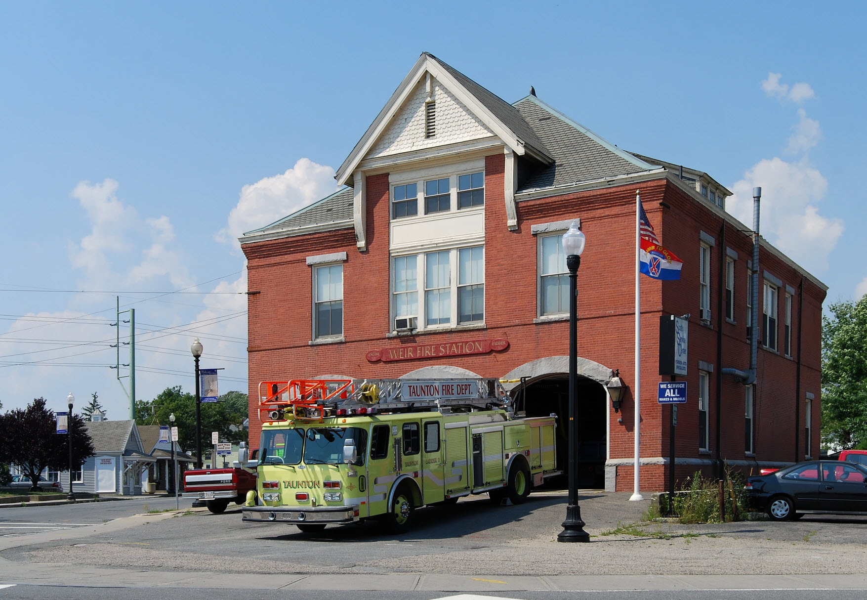 Weir Village Fire Station, Taunton, Massachusetts